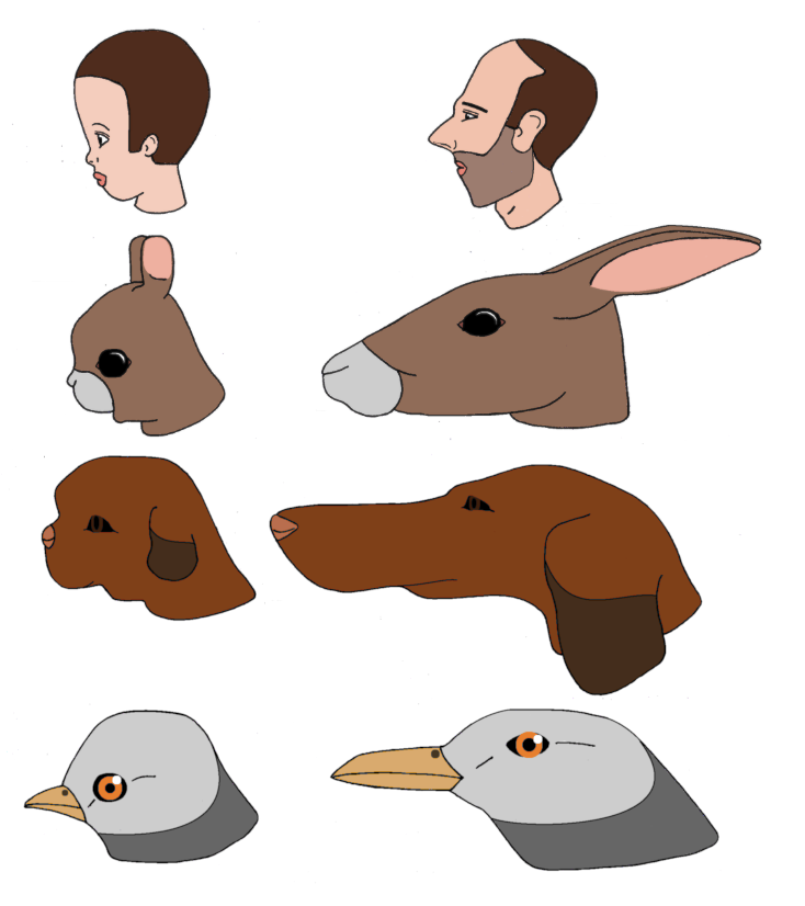 This is a drawing I drew based off a diagram in "Studies in Animal and Human Behavior, vol. II" by Konrad Lorenz 1971, Methuen & Co. Ltd from an article by Stephen Jay Gould called "A biological homage to Mickey Mouse". The caption of this diagram in that article said, "HUMANS FEEL AFFECTION for animals with juvenile features: large eyes, bulging craniums, retreating chins (left column). Small-eyed, long-snouted animals (right column) do not elicit the same response."